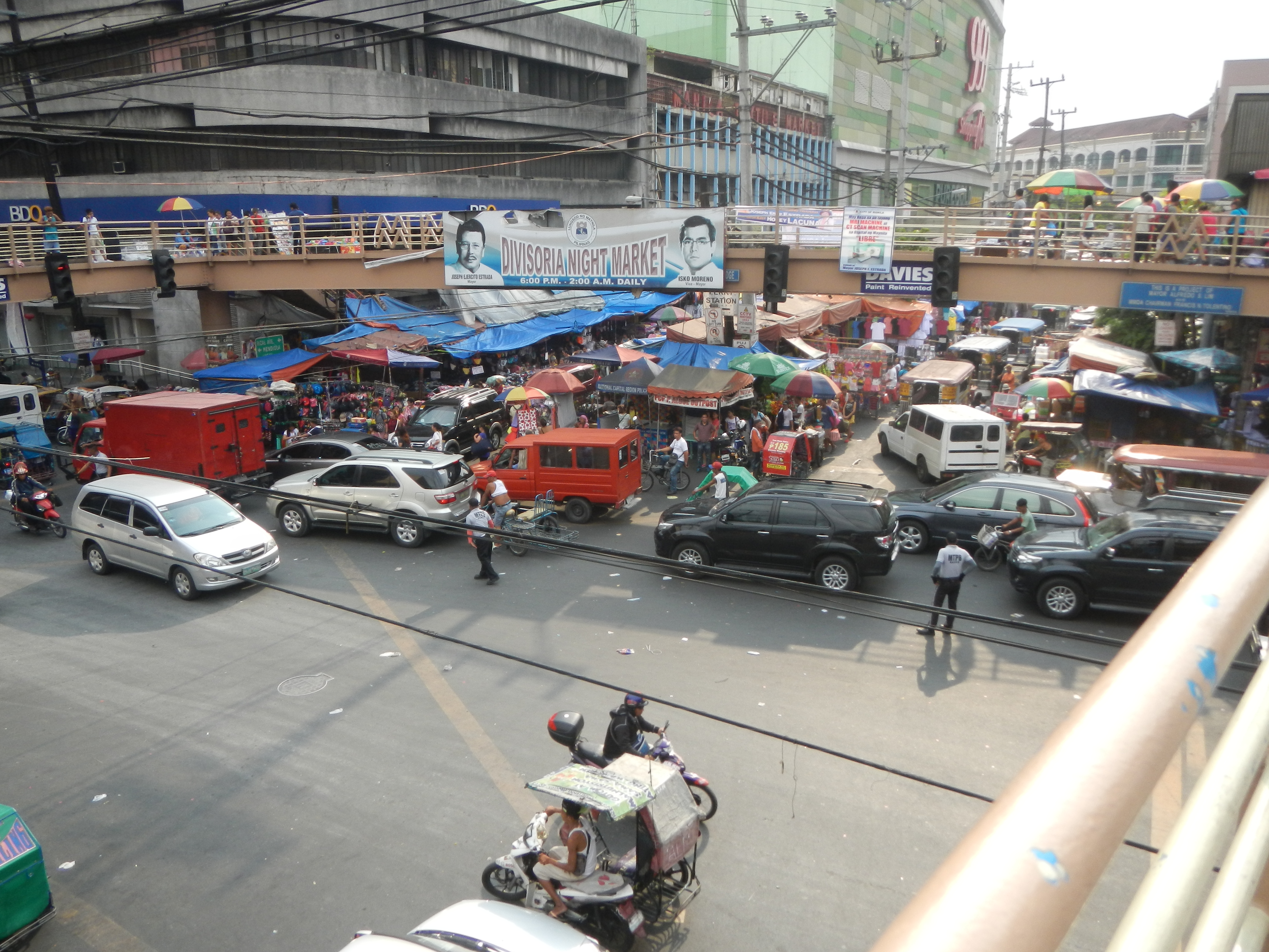 General Gregorio del Pilar Elementary School (Abad Santos Avenue-Recto Avenue) List of roads in Metro Manila Jose Abad Santos Avenue to C.M Recto-Abad Santos Footbridge City of Manila, in Rizal Avenue corner Recto Avenue, Santa Cruz, Manila and Tondo, Manila.